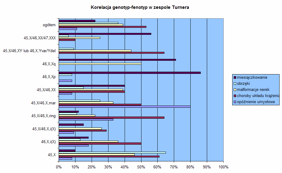 correlation between karyotype and phenotype in Turner's syndrome spectrum; for source file as me (Filip em); data from Sybert